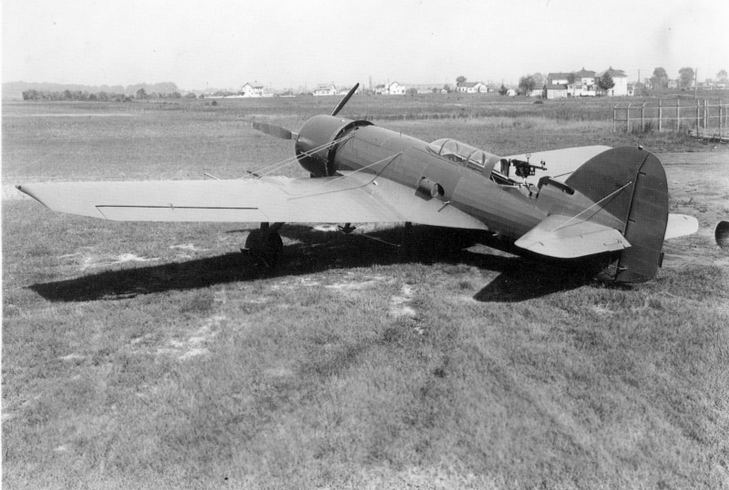 PictionID:45407030 - Catalog:16_006838 - Title:Bellanca 28-90 - Filename:16_006838.TIF - Image from the Ray Wagner Collection. Ray Wagner was Archivist at the San Diego Air and Space Museum for several years and is an author of several books on aviation --- ---Please Tag these images so that the information can be permanently stored with the digital file.---Repository: San Diego Air and Space Museum